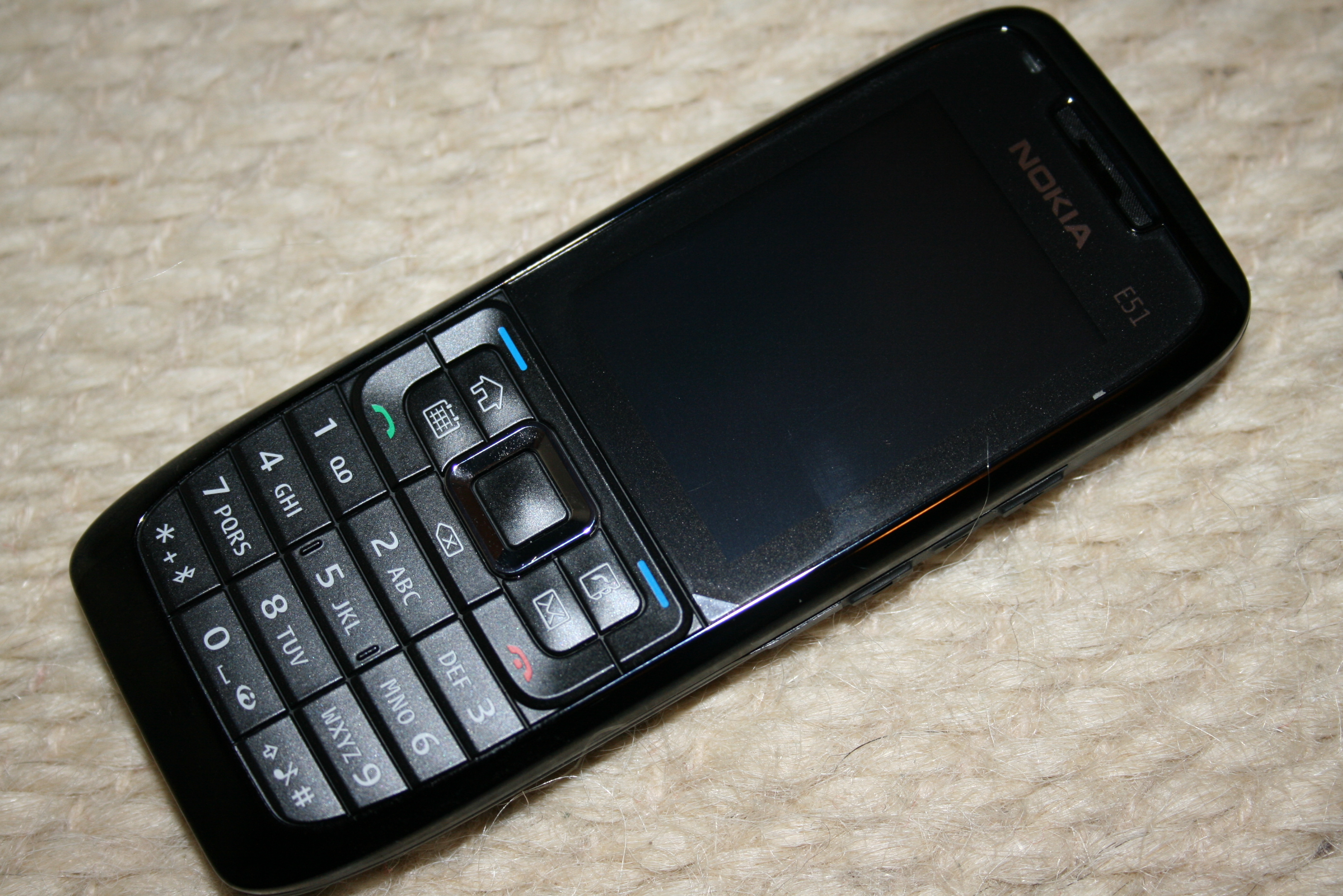 Nokia E51 Black